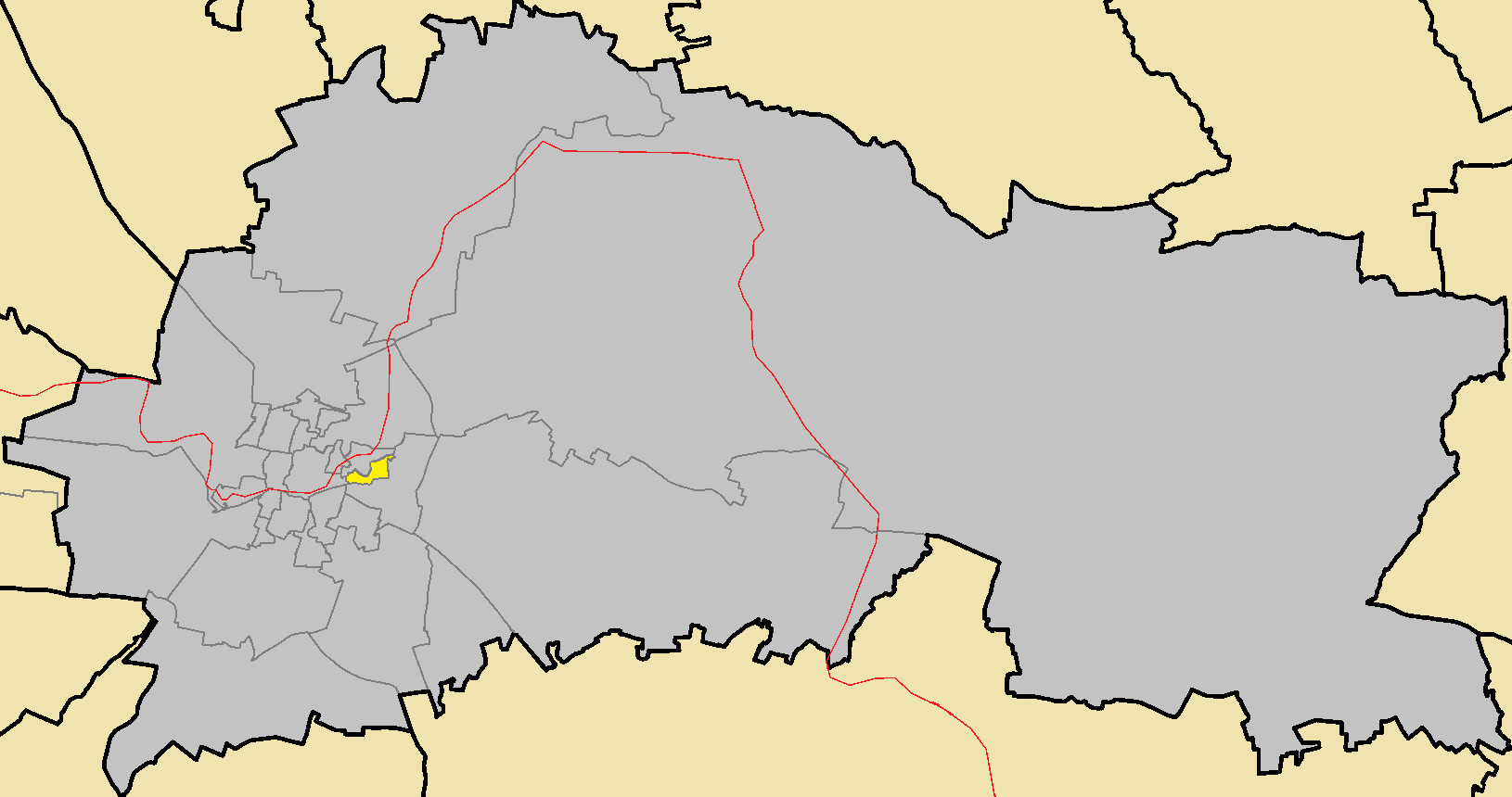 Chrysaliniotissa in Nicosia Municipality.